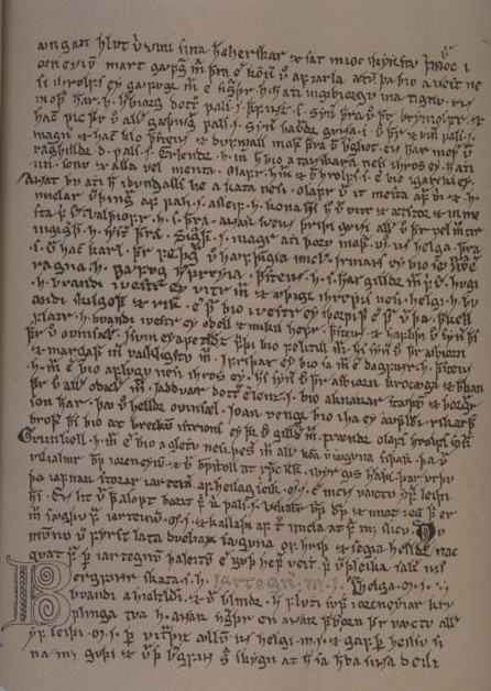 Saga of the Orkneys manuscript - XIII Century